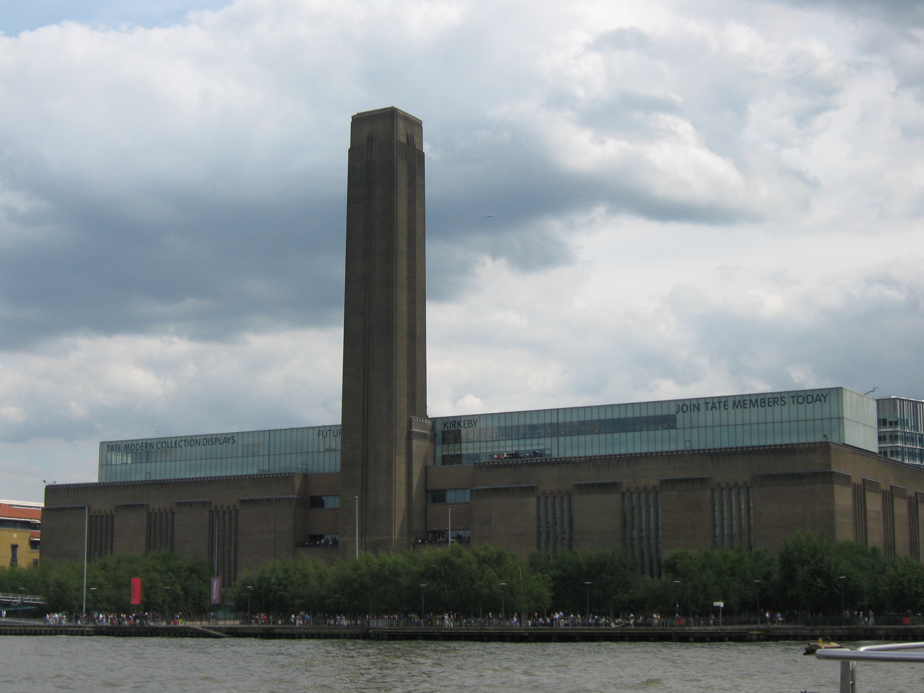 Tate modern London